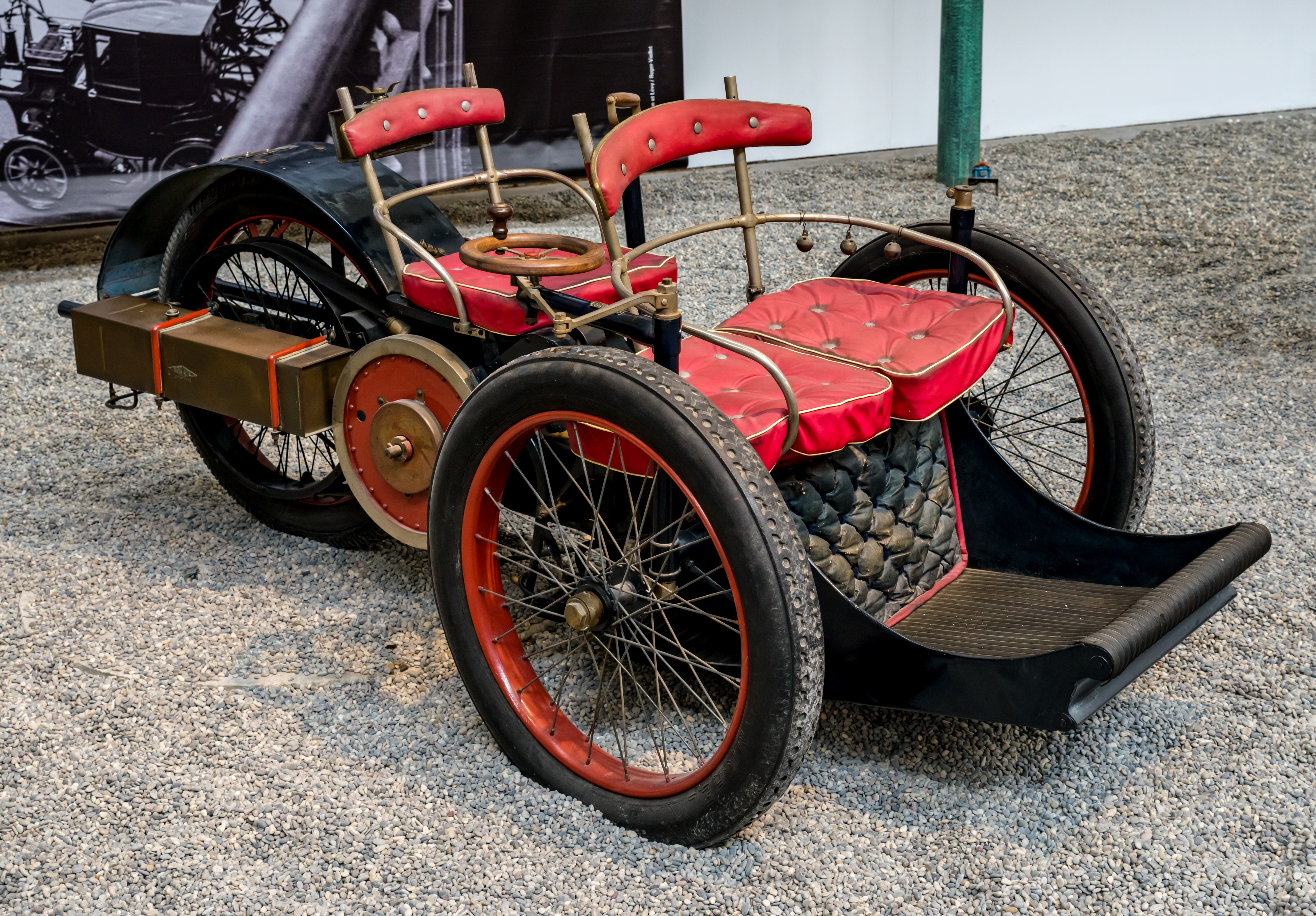 pictures from the Cité de l’Automobile – Musée National – Collection Schlump in Mulhouse, France ptictures from the 10. may 2018